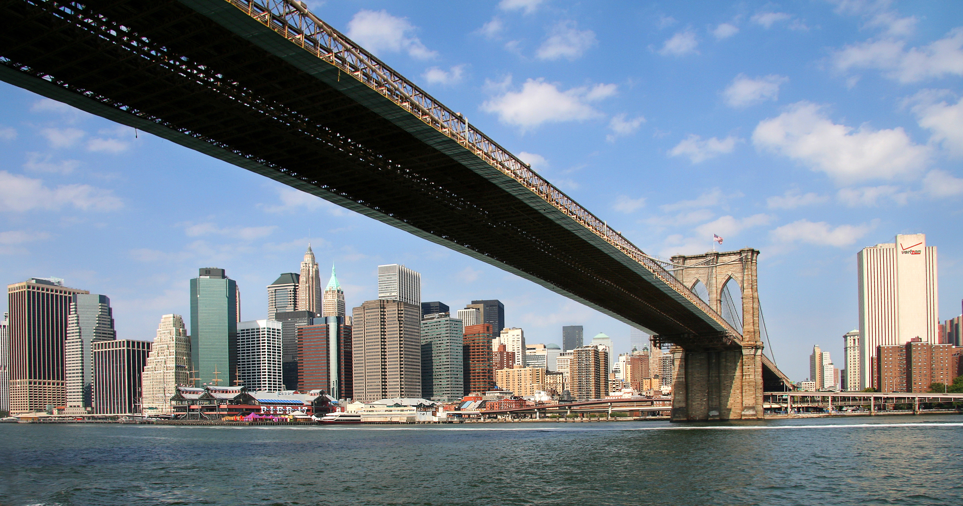 Manhattan, New York City with Brooklyn Bridge